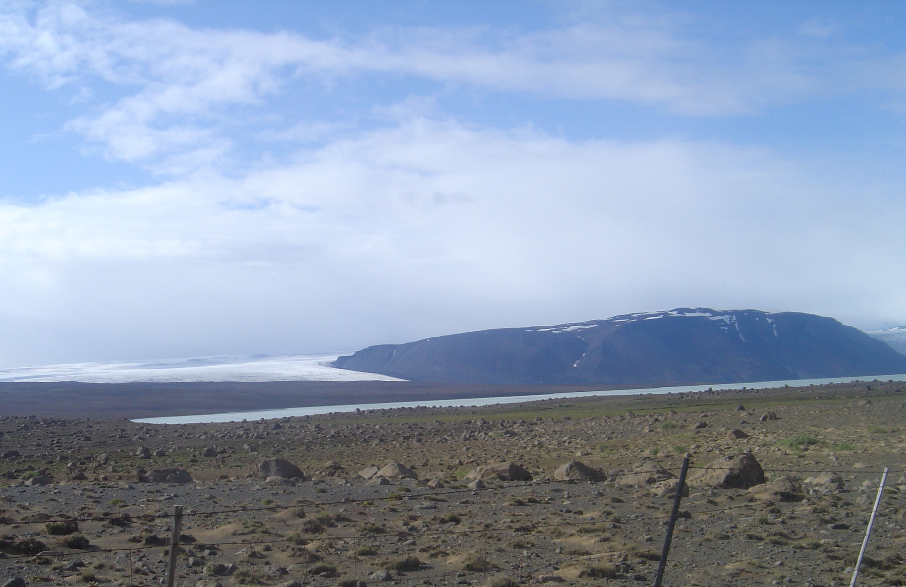 Lake Hvítárvatn and Langjökull glacier in the central highlands of Iceland.